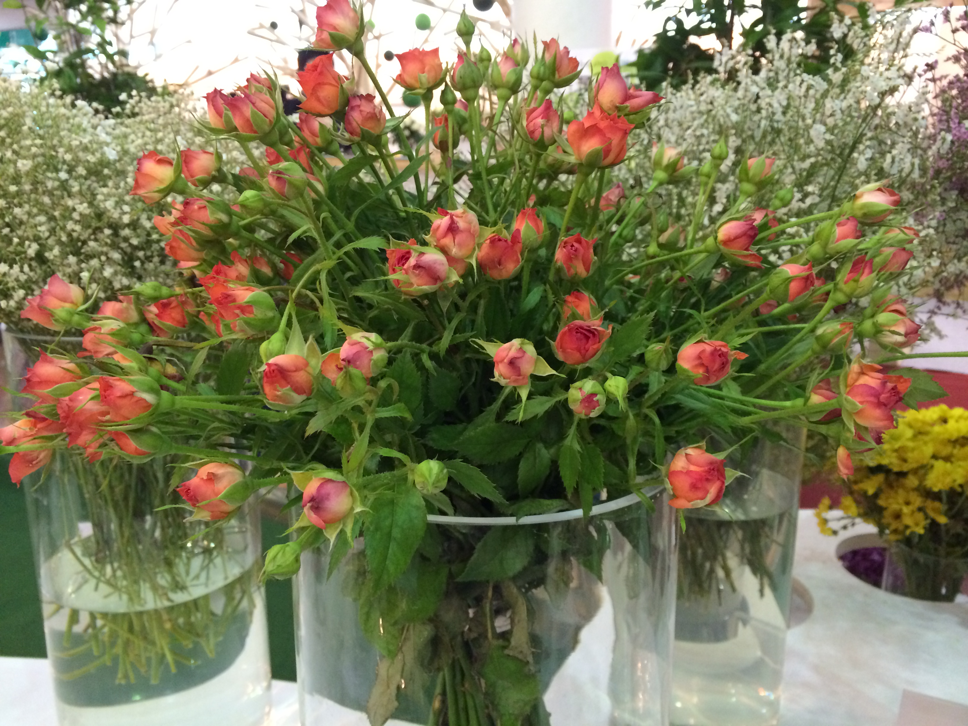 Manish Rose